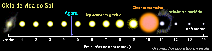 The life cycle of the sun.